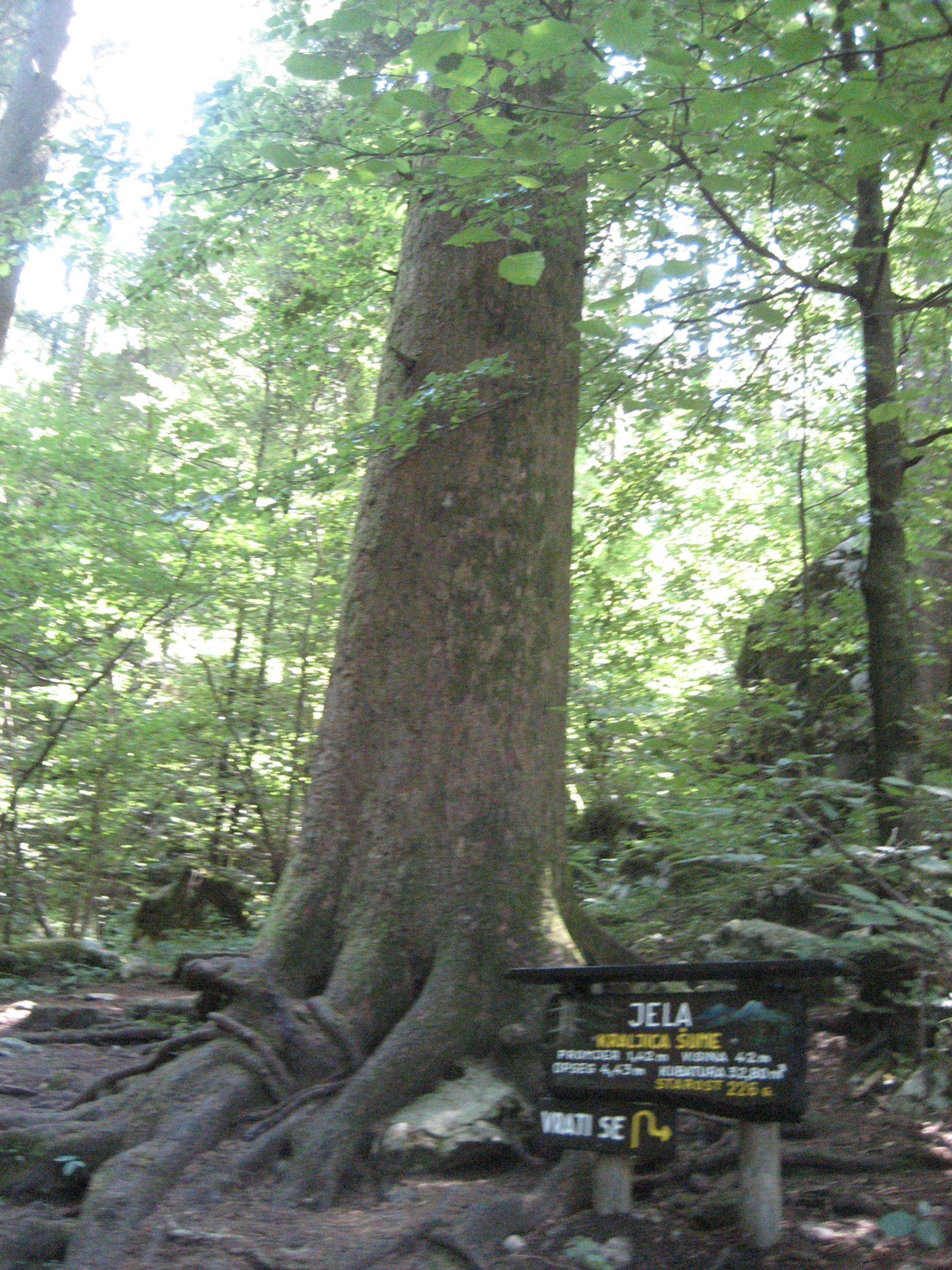 Kraljica Sume, Queen of the Forrest